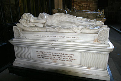 Photo of the monument to Penelope Boothby in St. Oswald's Church, Ashbourne, Derbyshire, England. Used with kind permission from Edward Rokita and Derbyshire UK (